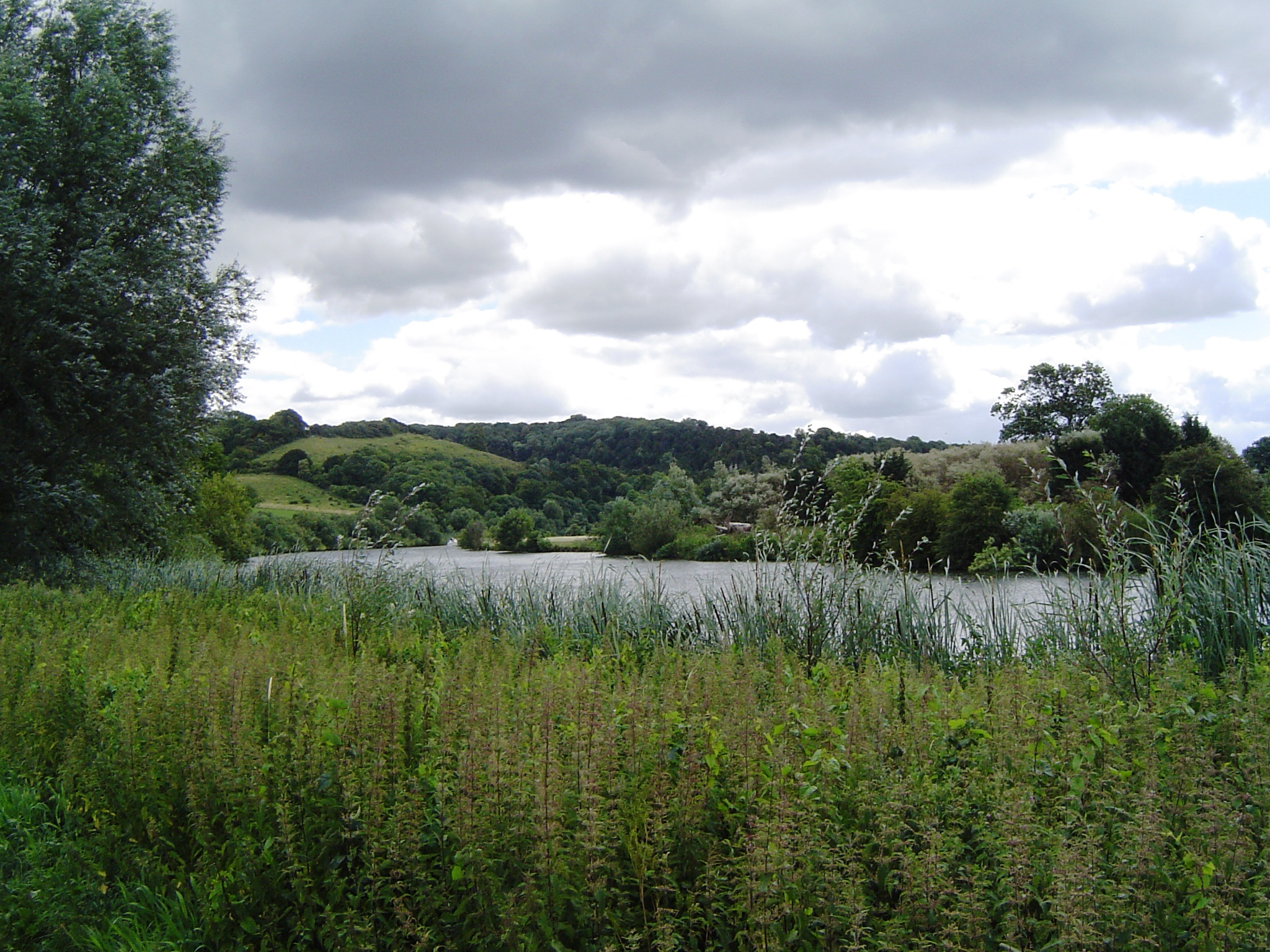 River Thames above Whitchurch Lock with Harts Lock Woods on the hill